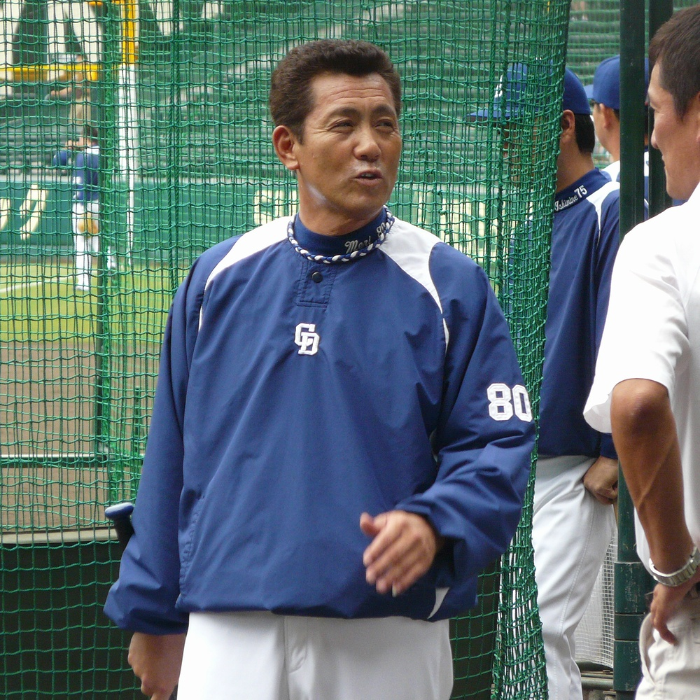 Shigekazu Mori, coach of the Chunichi Dragons, at Hanshin Koshien Stadium.